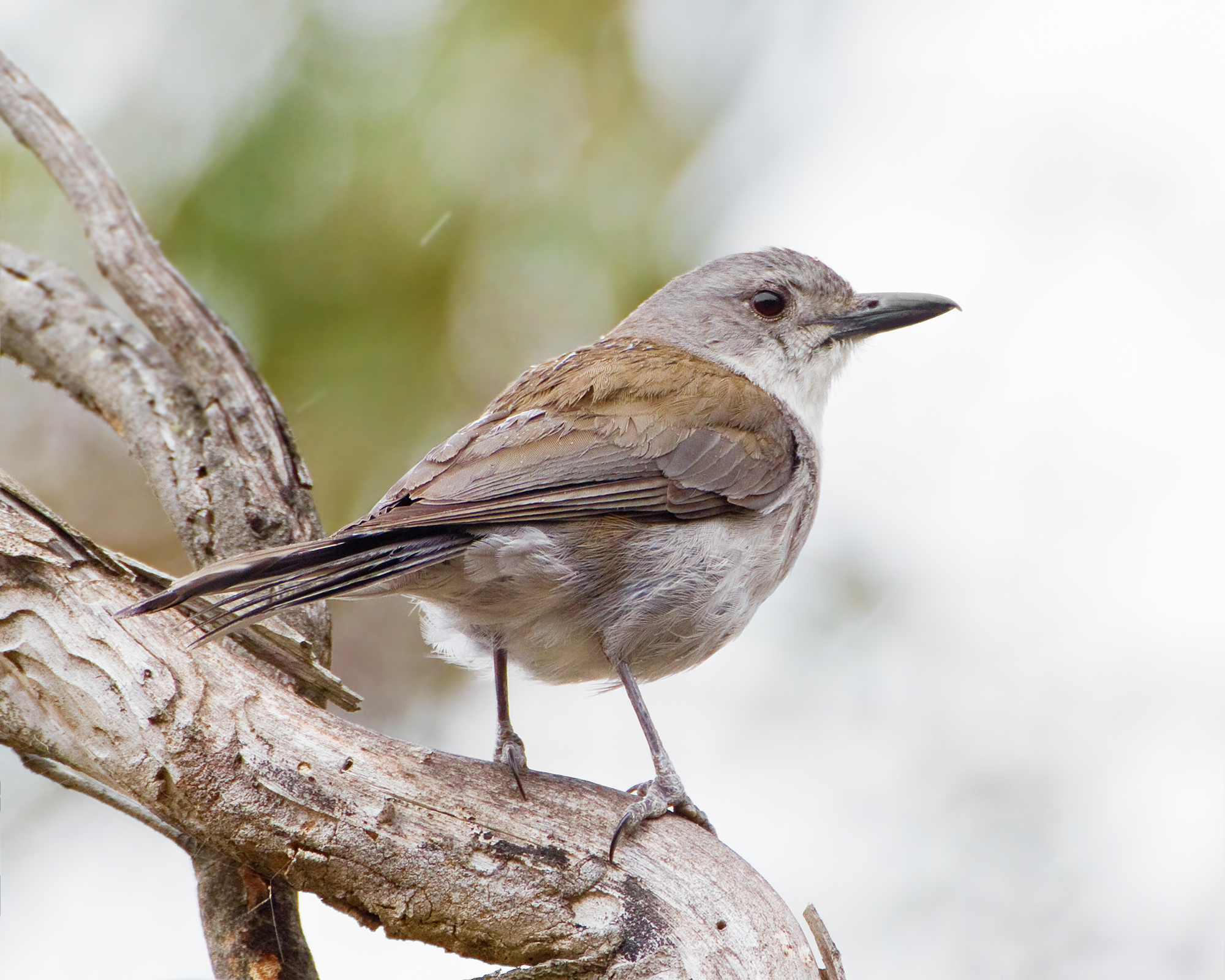 Grey Shrike-thrush (Colluricincla harmonica), Mortimer Bay, Tasmania, Australia.